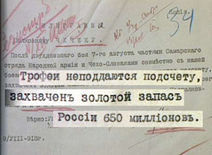 Telegram from Kappel (gold).